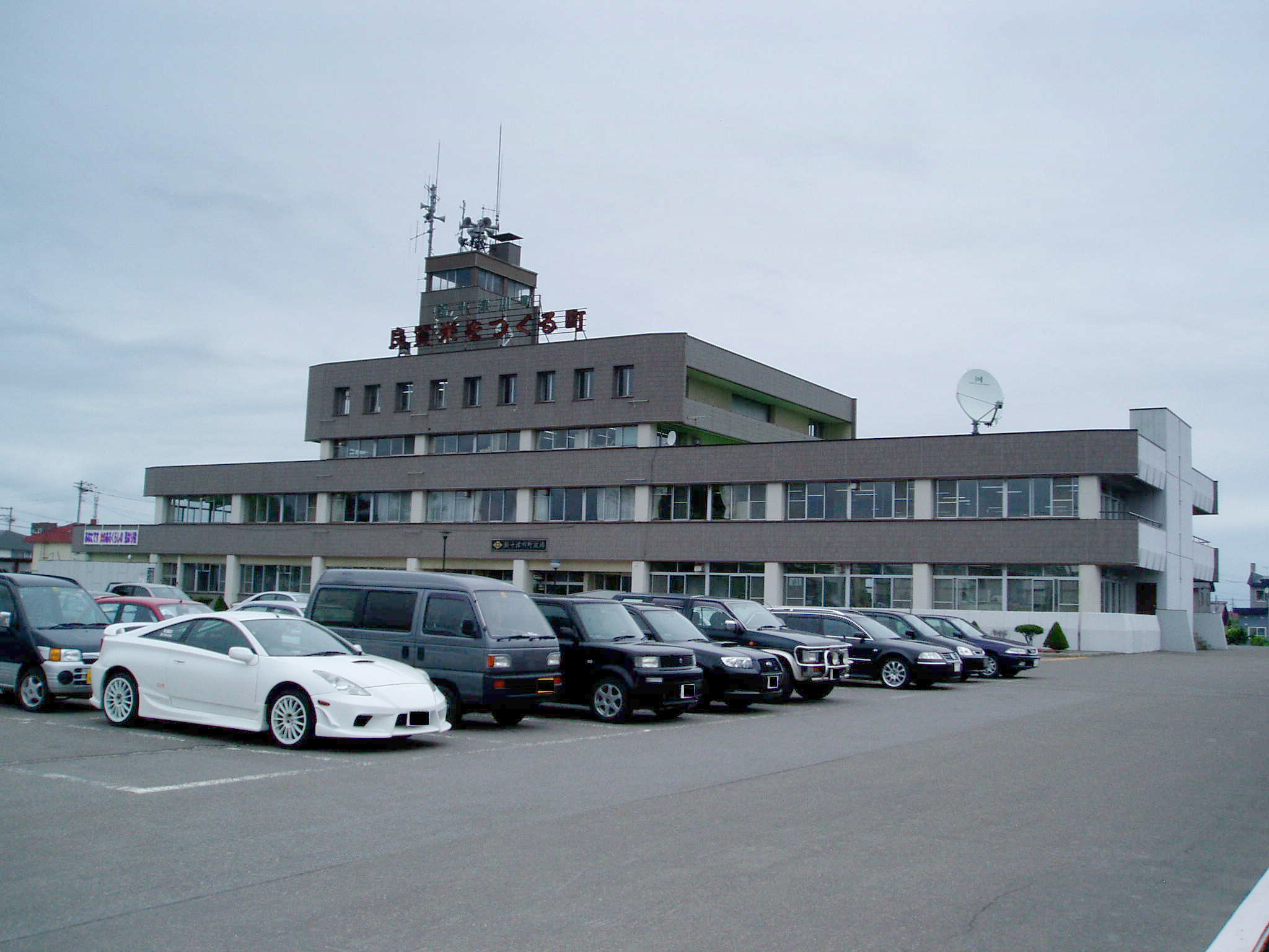 Town hall of Shintotsukawa, Hokkaidō.